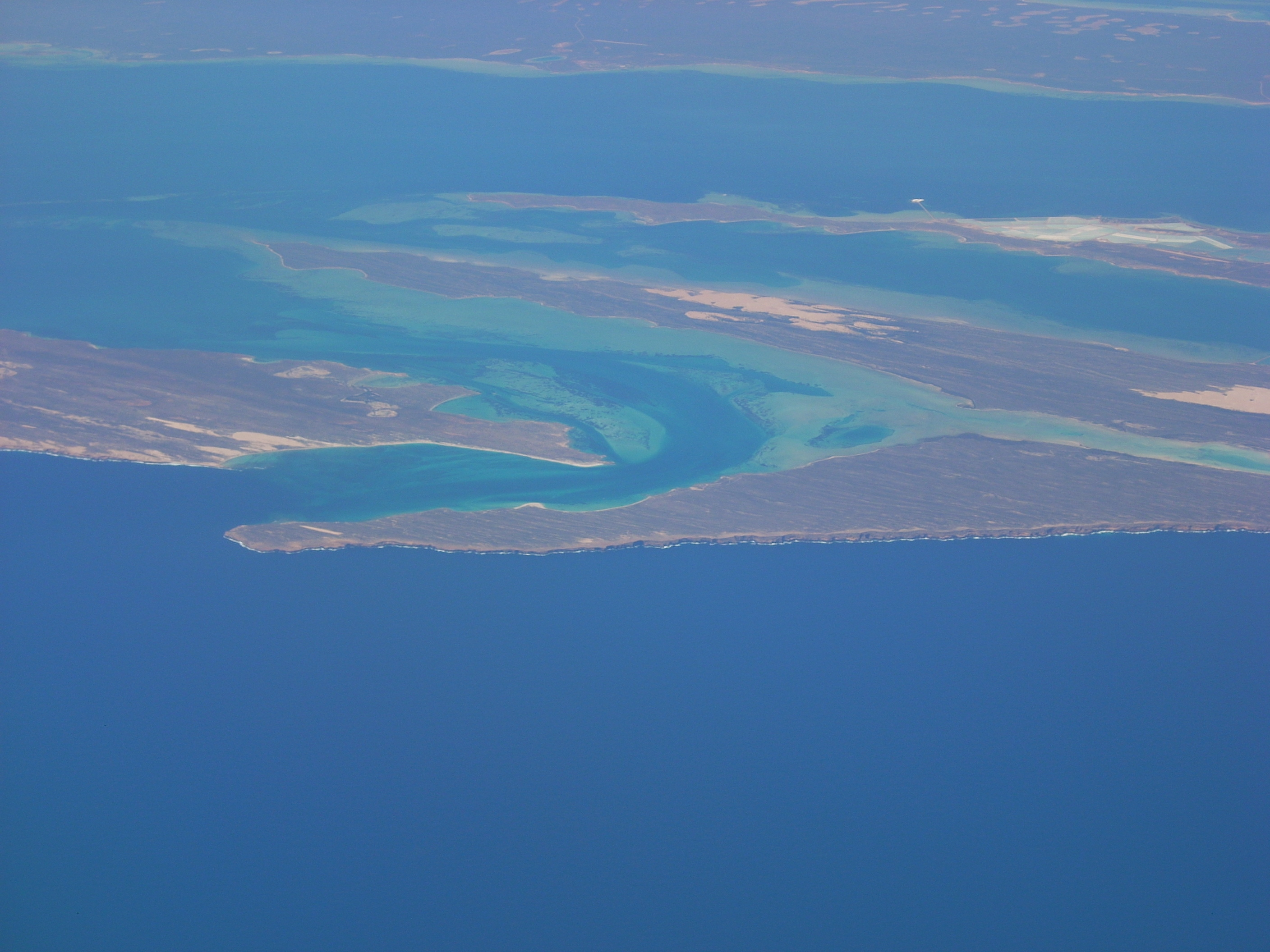 Steep Point the most western point of the Shark Bay area, in Western Australia - taken from the aeroplane flying south towards Perth, Western Australia, in November 2007